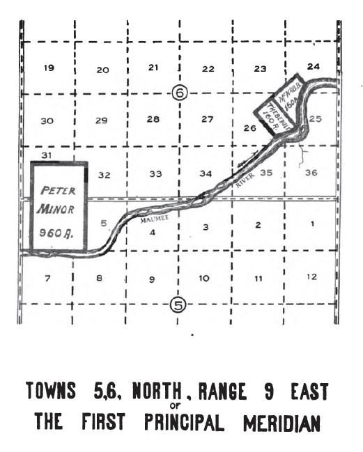 Map of federal land grants to Indian individuals in northwest Ohio known as the Indian Land Grants